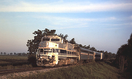 The Lake Country Limited near Janesville, Wisconsin in July 2000